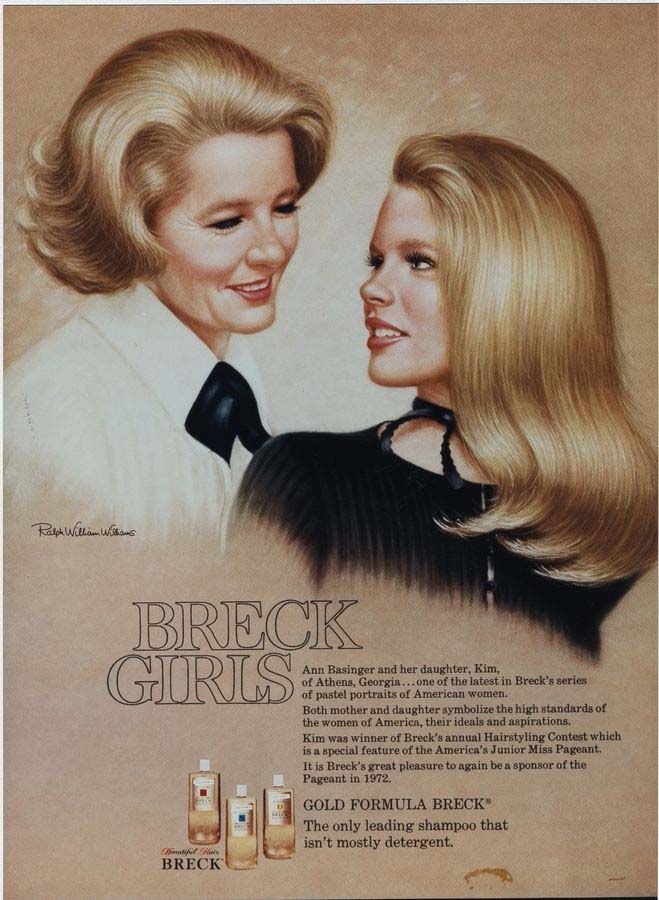 Kim Basinger and her mother Ann Basinger for Breck Shampoo, 1972